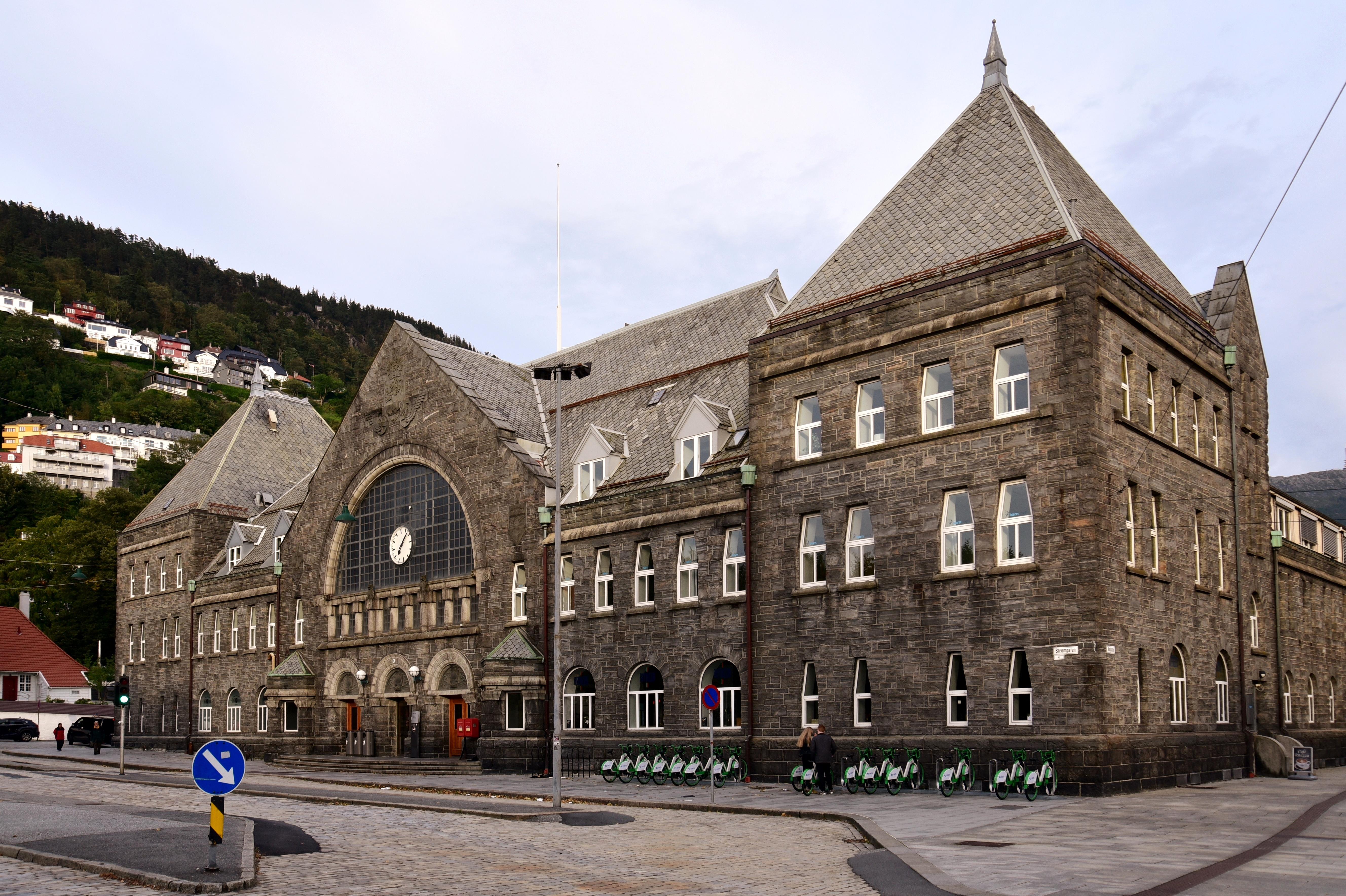 View of the station building at Bergen station, Norway